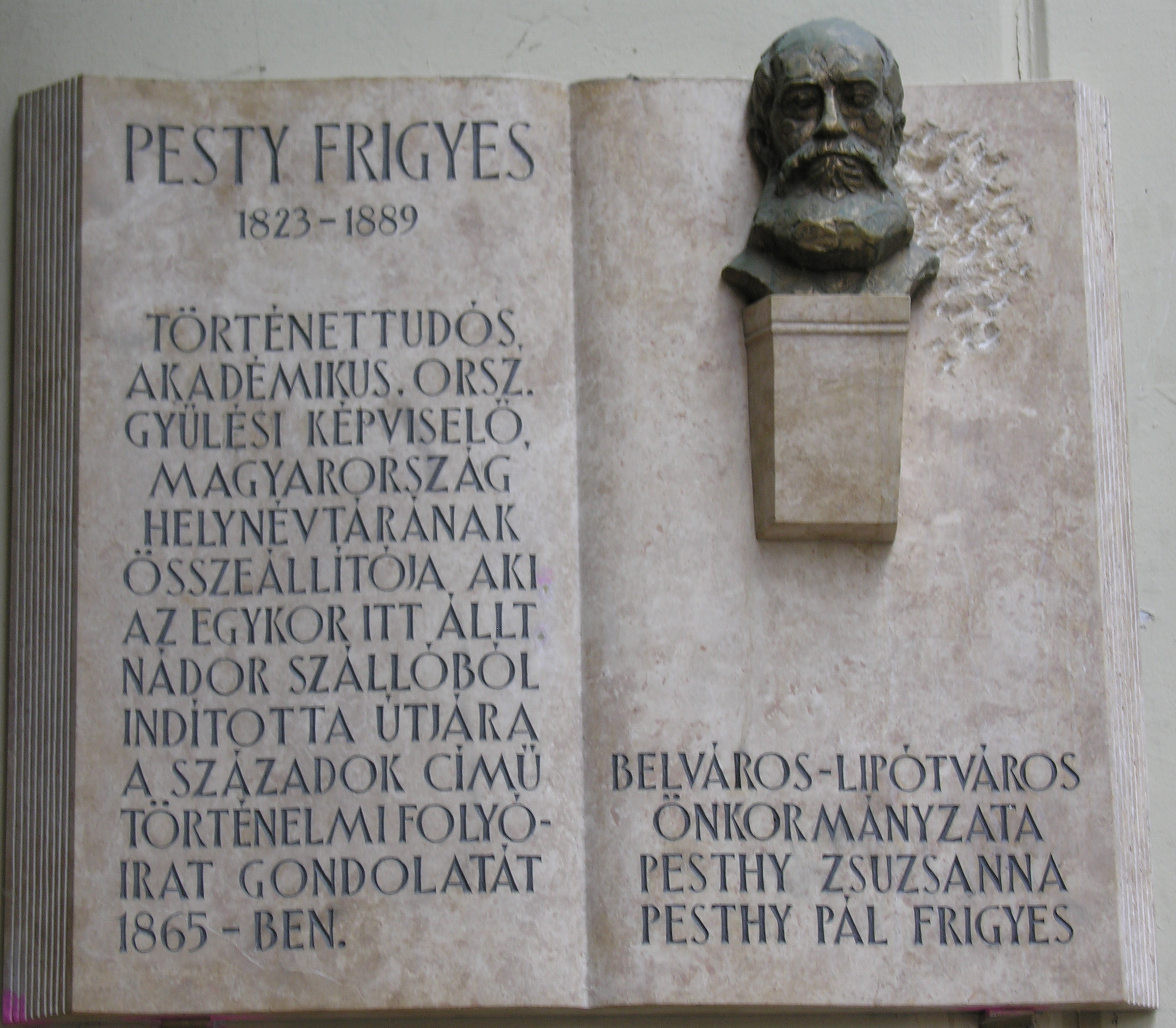 Commemorative plaque of Frigyes Pesty in Budapest District V, Váci Street No 20